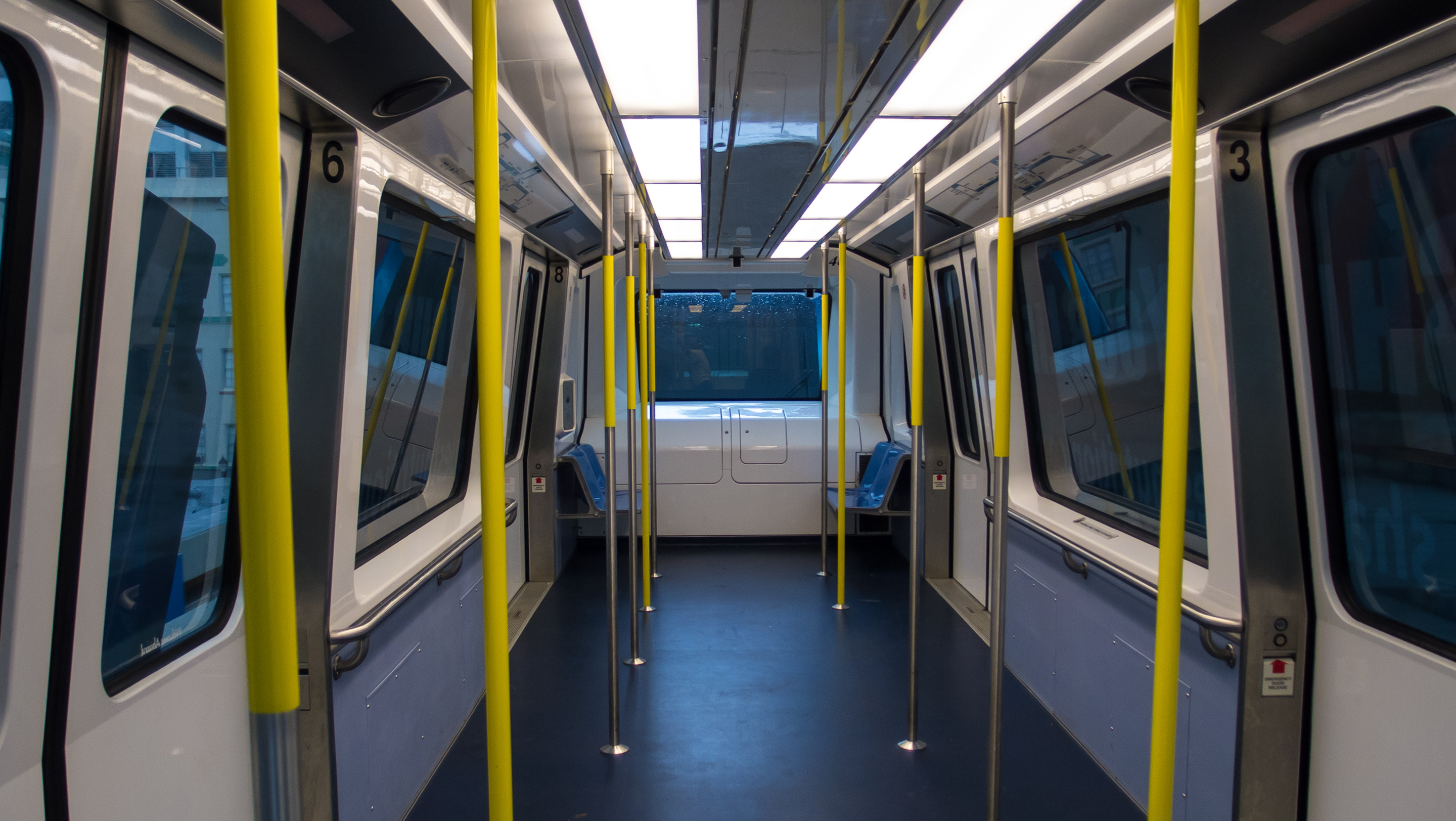 Inside an empty Metromover car.